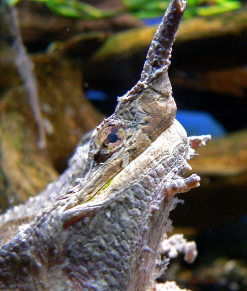 Photo of Chelus fimbriatus (matamata) at the Steinhart Aquarium in San Francisco